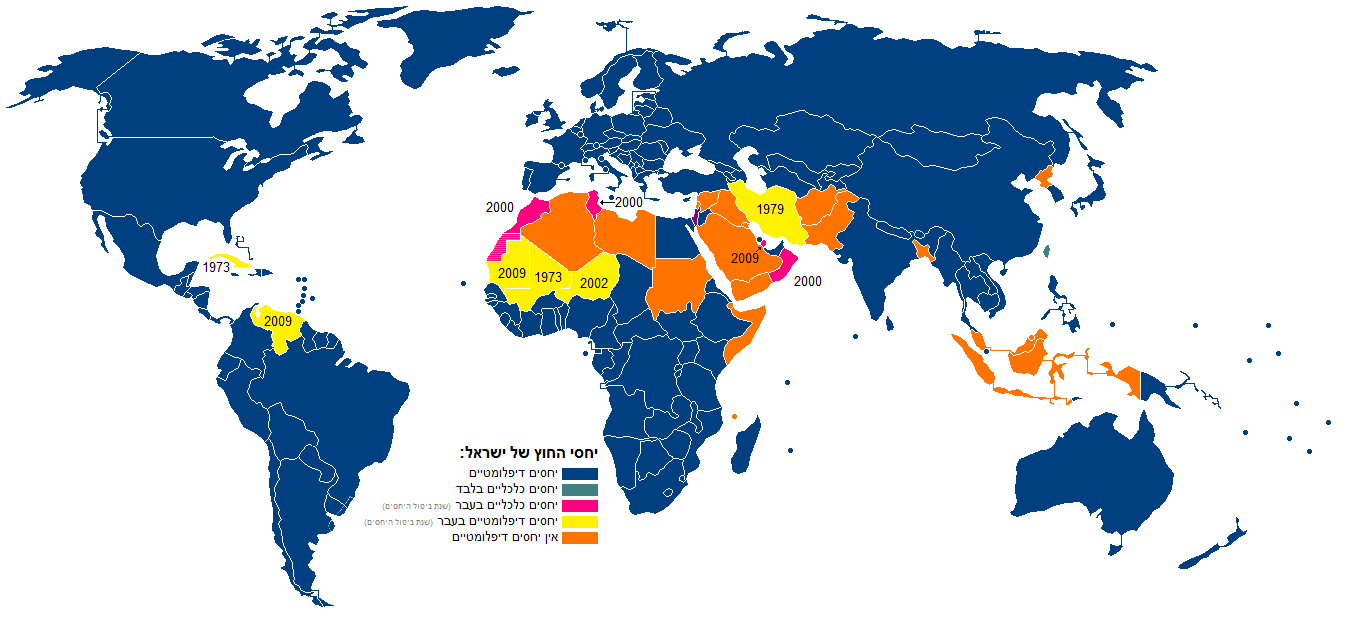 A map of the world, showing the states which have diplomatic relations with Israel. Note that the lack of diplomatic relations does not mean non-recognition, and does not mean lack of commercial relations or other type of international relations.